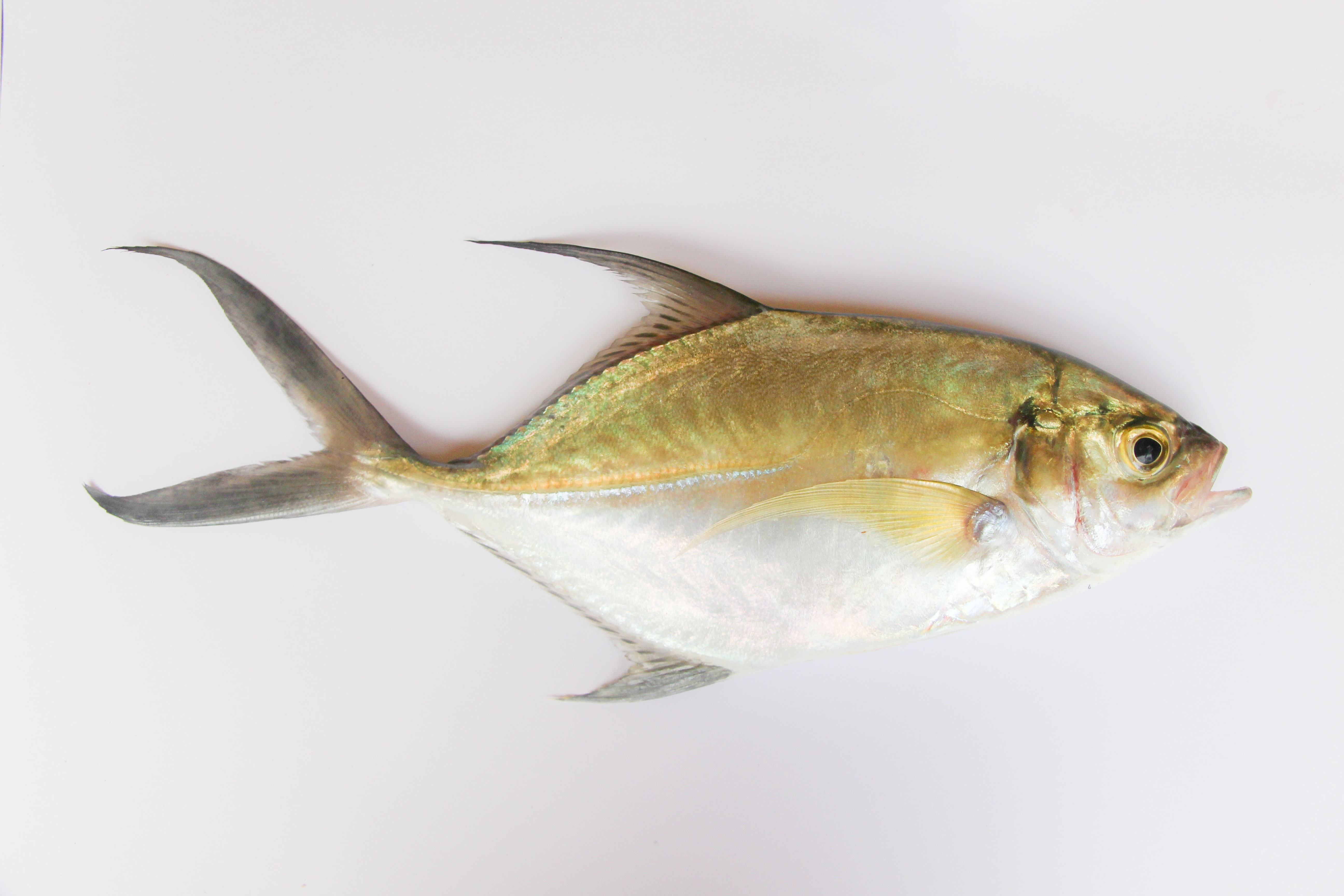 Fish the name in Gambia is silvertuna